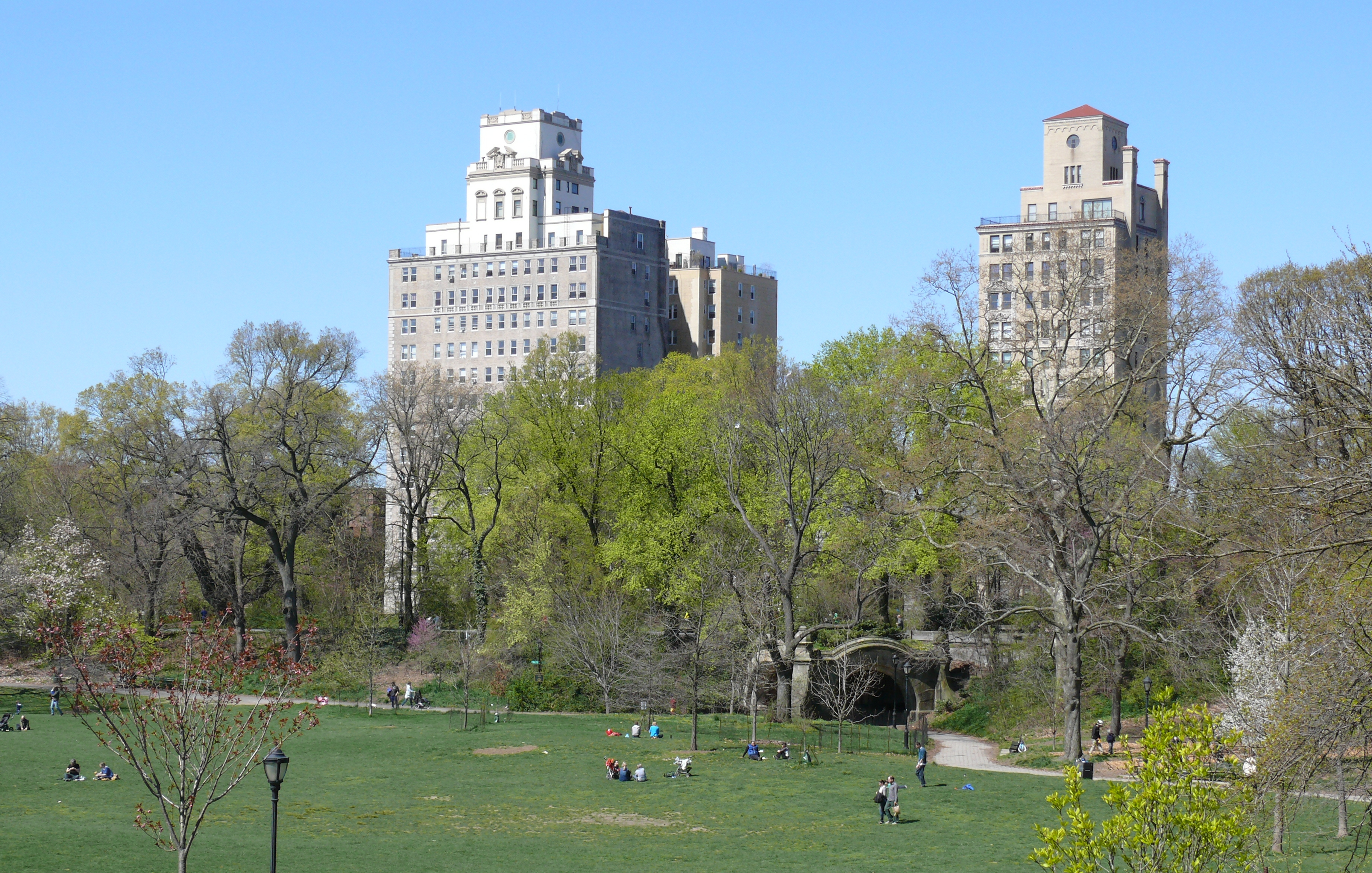 Prospect Park, Brooklyn, NY.